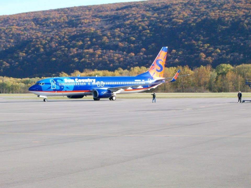 A Sun Country Boeing 737 at Williamsport Regional Airport in Pennsylvania.